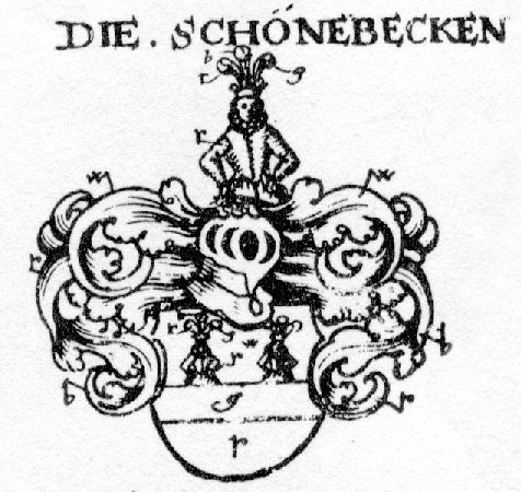 Coats of arms of von Schönebeck family